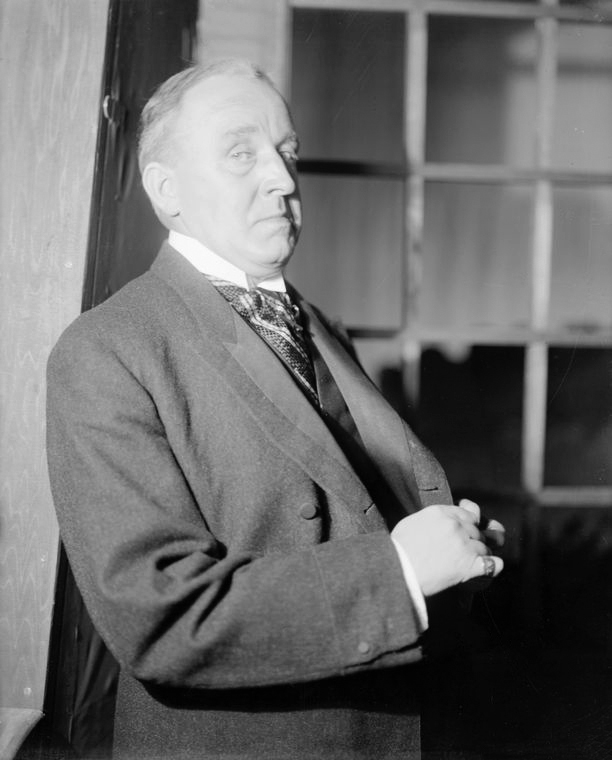 Photograph of Dudley Digges as Boss Mangan in the original Broadway production of Heartbreak House (1920), which he also directed for the Theatre Guild